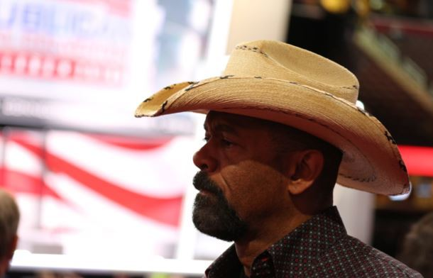 Milwaukee County sheriff David Clarke at the Quicken Loans Arena before the start of the Wednesday night program at the Republican National Convention, in Cleveland, July 20, 2016.